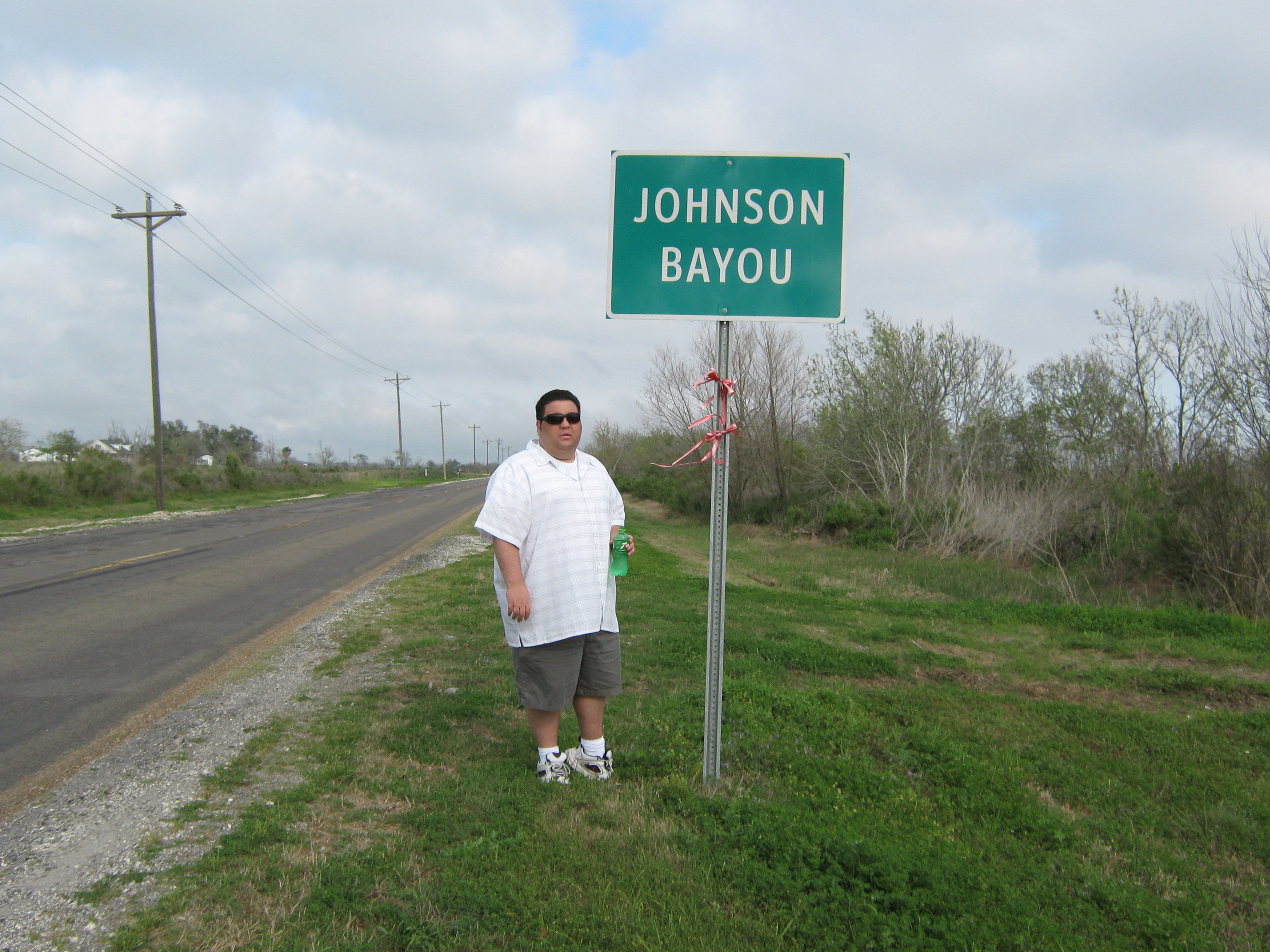 Johnson Bayou, Louisiana